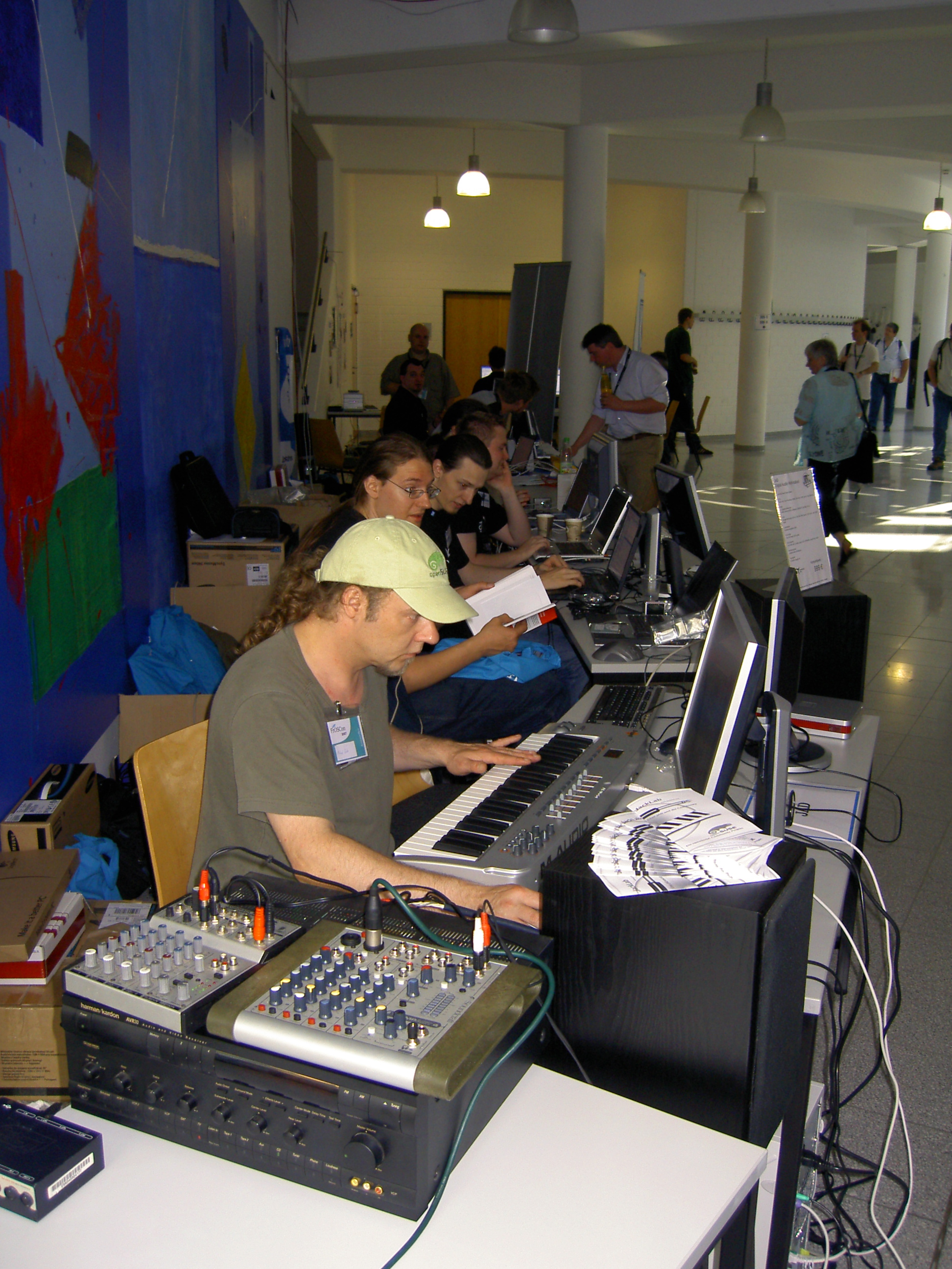 Music with Linux, FrOSCon 2007 FrOSCon 2007 with its integrated Drupal track was a great success. The organization of the conference was perfect, the facilities are great, and lots of enthusiastic people showed up to participate.